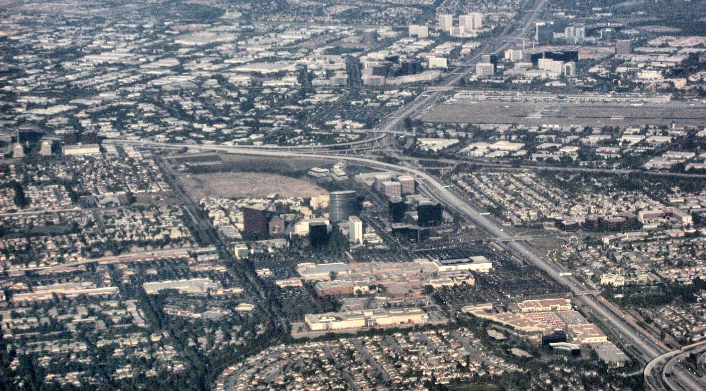 Aerial view of central Orange County overlooking South Coast Metro, John Wayne Airport, and the Irvine business district.